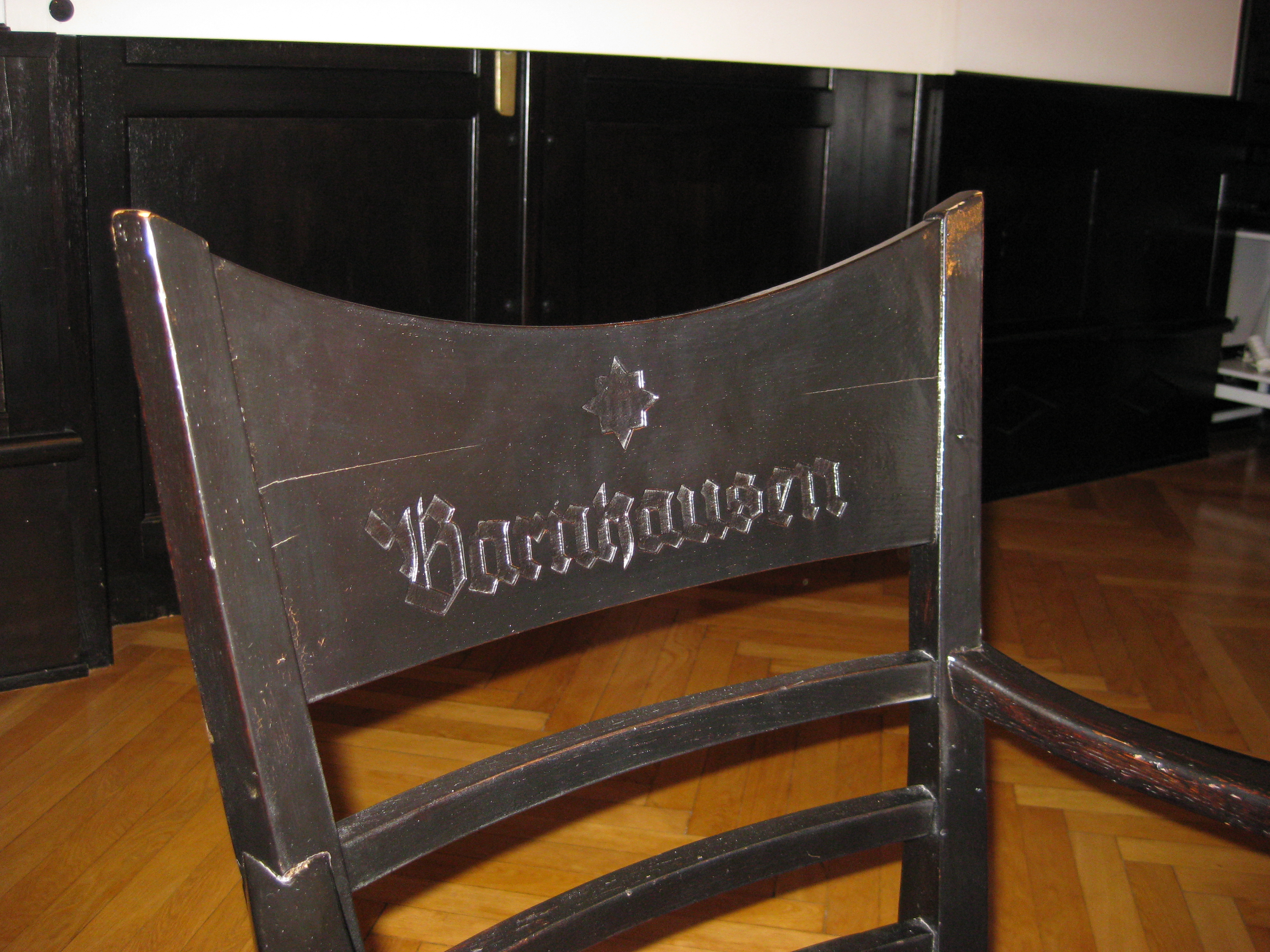 Seat (backrest) in the boardroom of the former district office of the rural district Halle (Westf.), each community of the district was represented with one chair